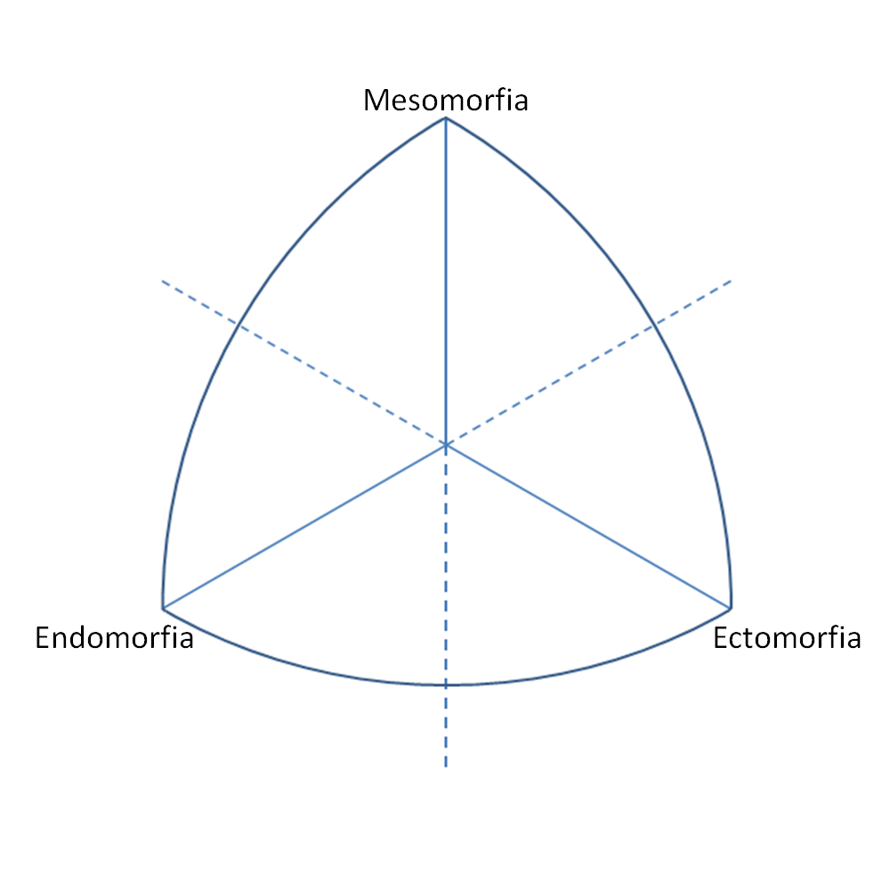 Somatype graph